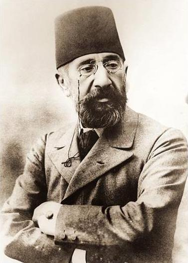 Osman Hamdi Bey (1842-1910) was an Ottoman statesman and art expert and also a prominent and pioneering Turkish painter.